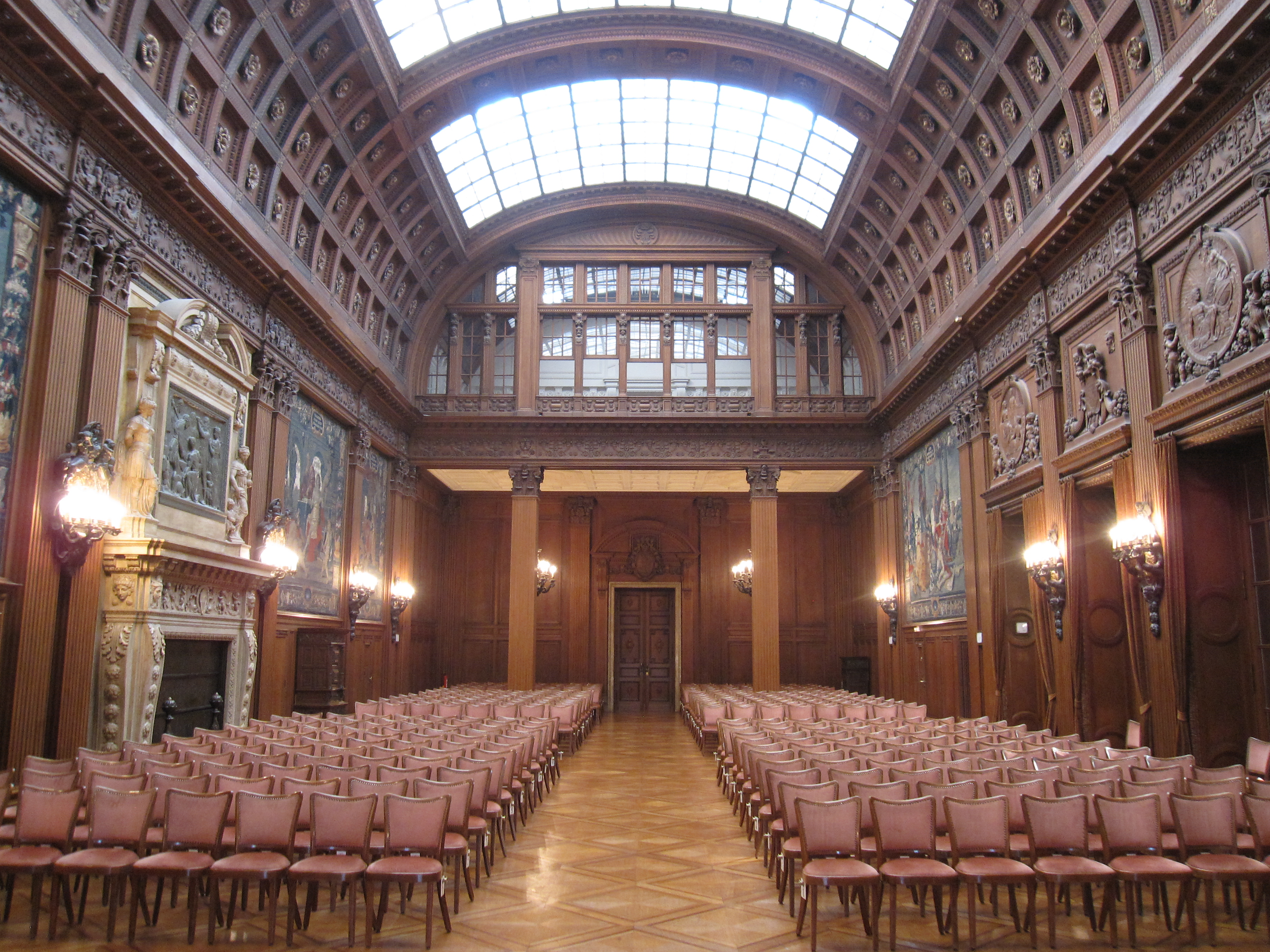 Villa Hügel in Essen.